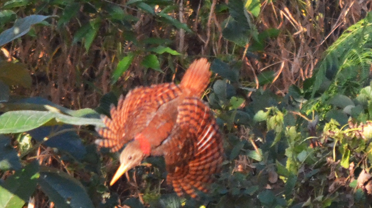 Bay Woodpecker Blythipicus pyrrhotis Mizoram